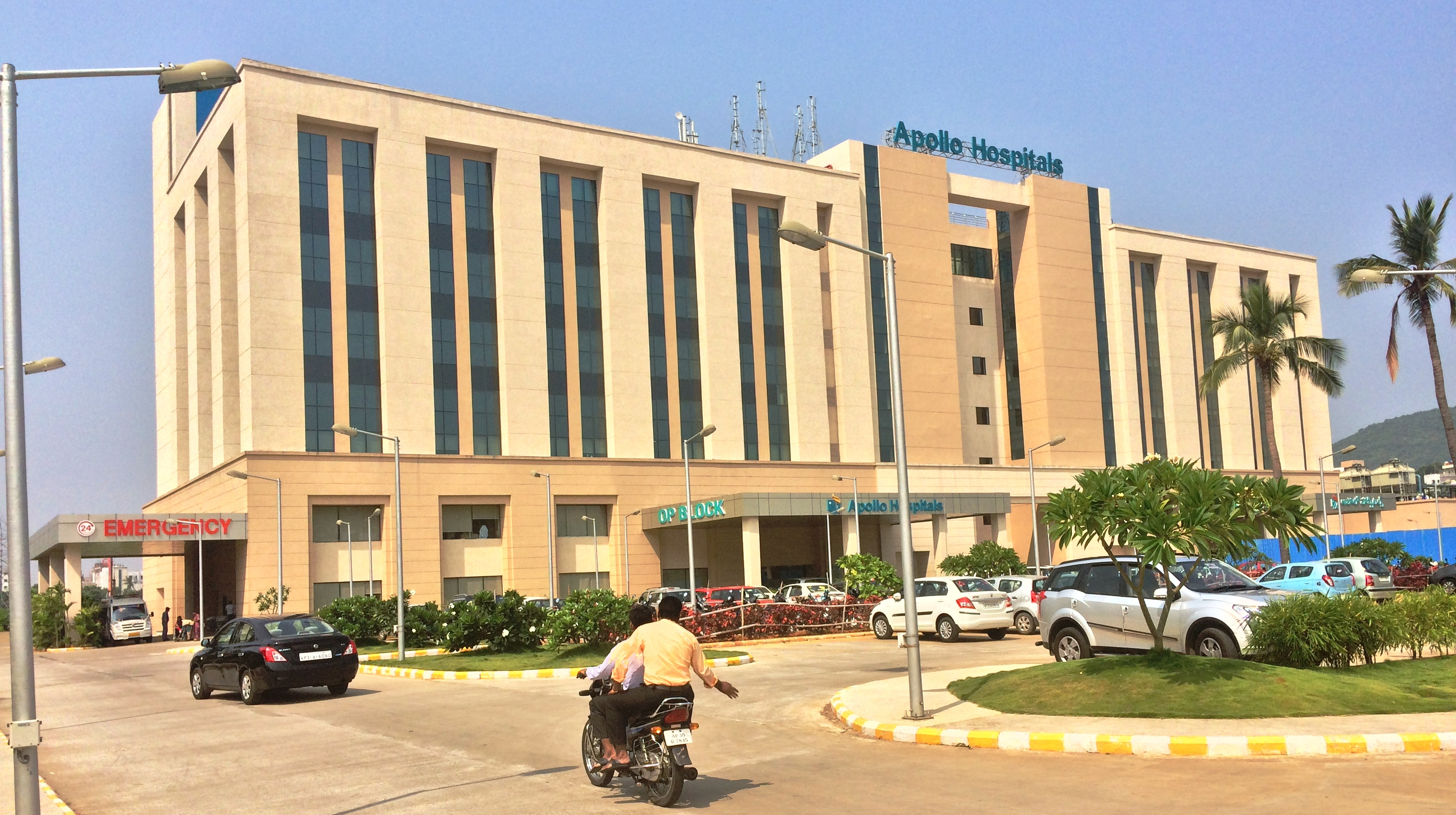 New campus of Apollo Hospitals at Visakhapatnam